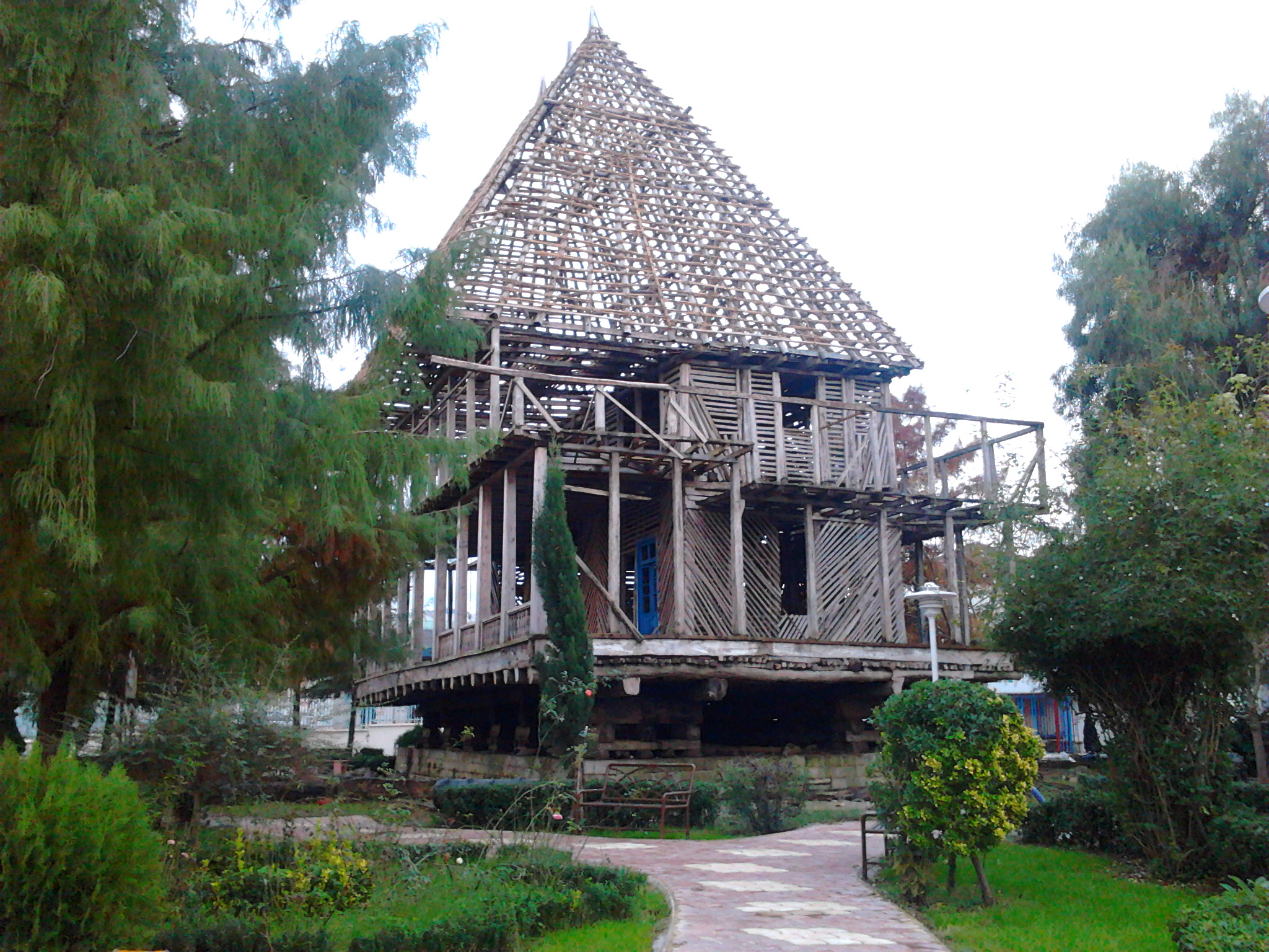 Besat Park, Lahidjan, Guilan, Iran